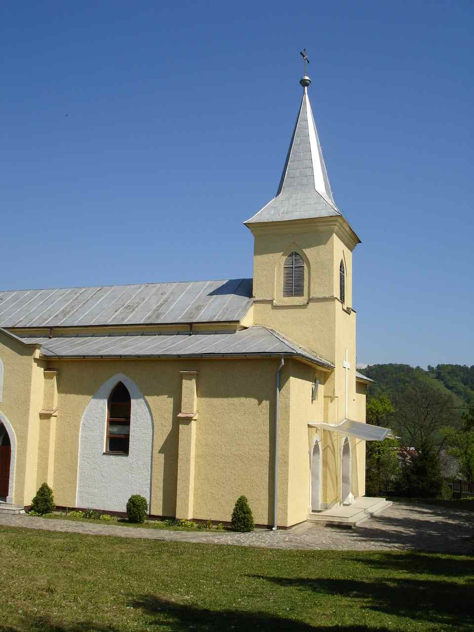 Topolovka - latin church